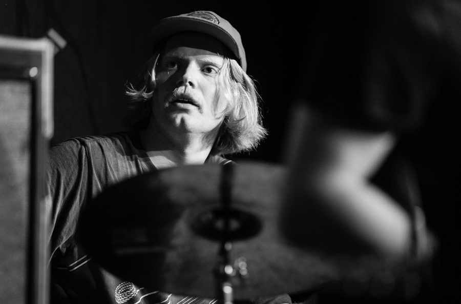 Axel Skalstad in a concert with Krokofant at Privat Bar. The concert was part of Kongsberg Jazzfestival and took place on 03. July 2019 in Kongsberg. Lineup:Tom Hasslan (guitar)Axel Skalstad (drums)Jørgen Mathisen (saxophone)Ståle Storløkken (organ)Ingebrigt Håker Flaten (bass guitar)